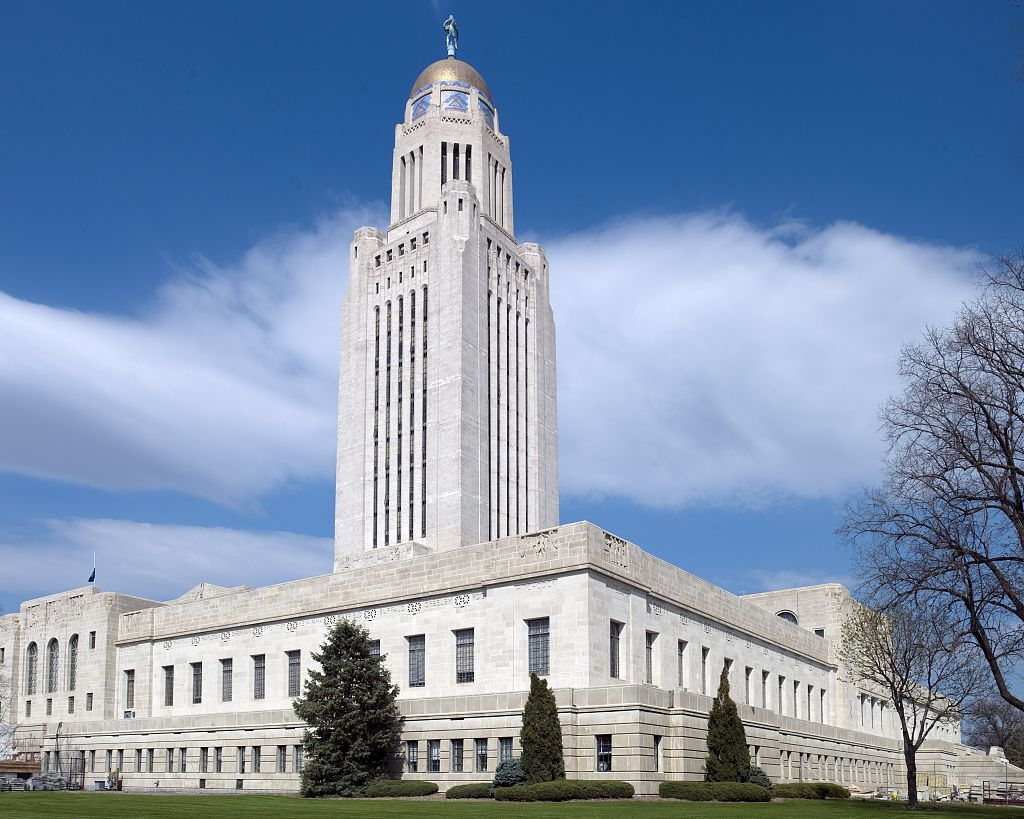 The Nebraska State Capitol Object location40° 48′ 29″ N, 96° 41′ 57″ W